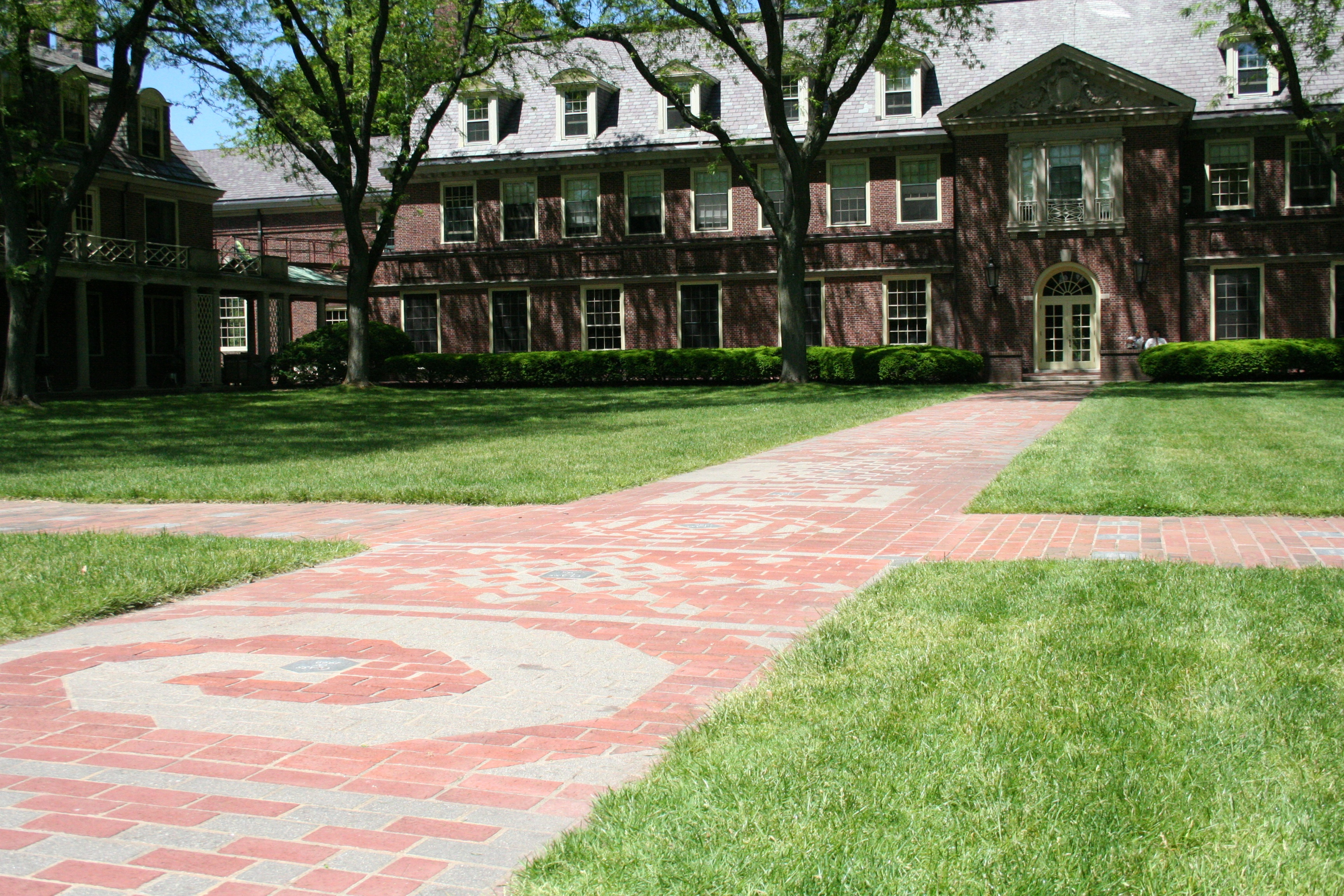 The Senior Path, Grubbs Quadrangle, The Loomis Chaffee School, Windsor, Conn.